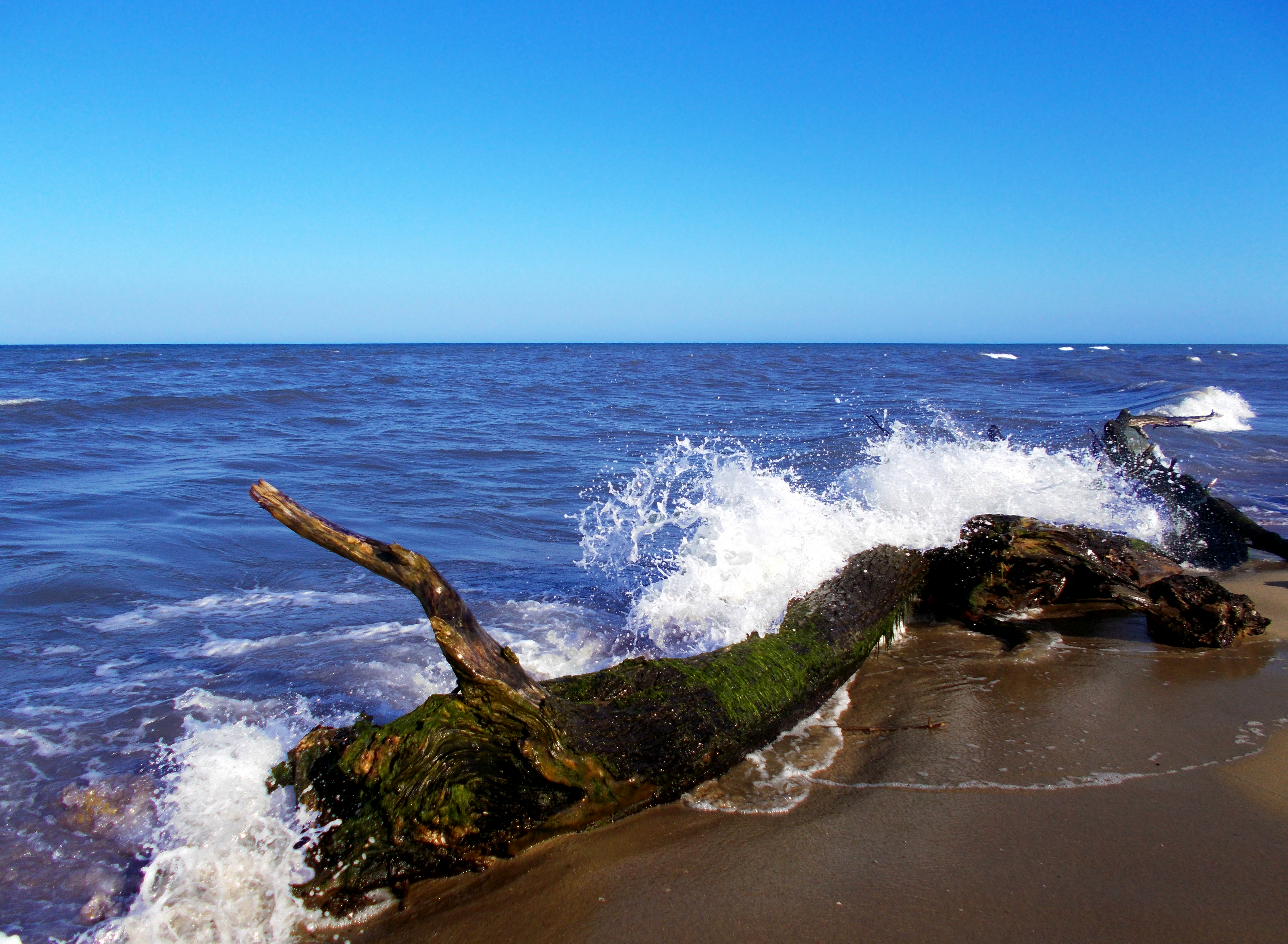 Mouth of the Kamchia River, Kamchia Reserve